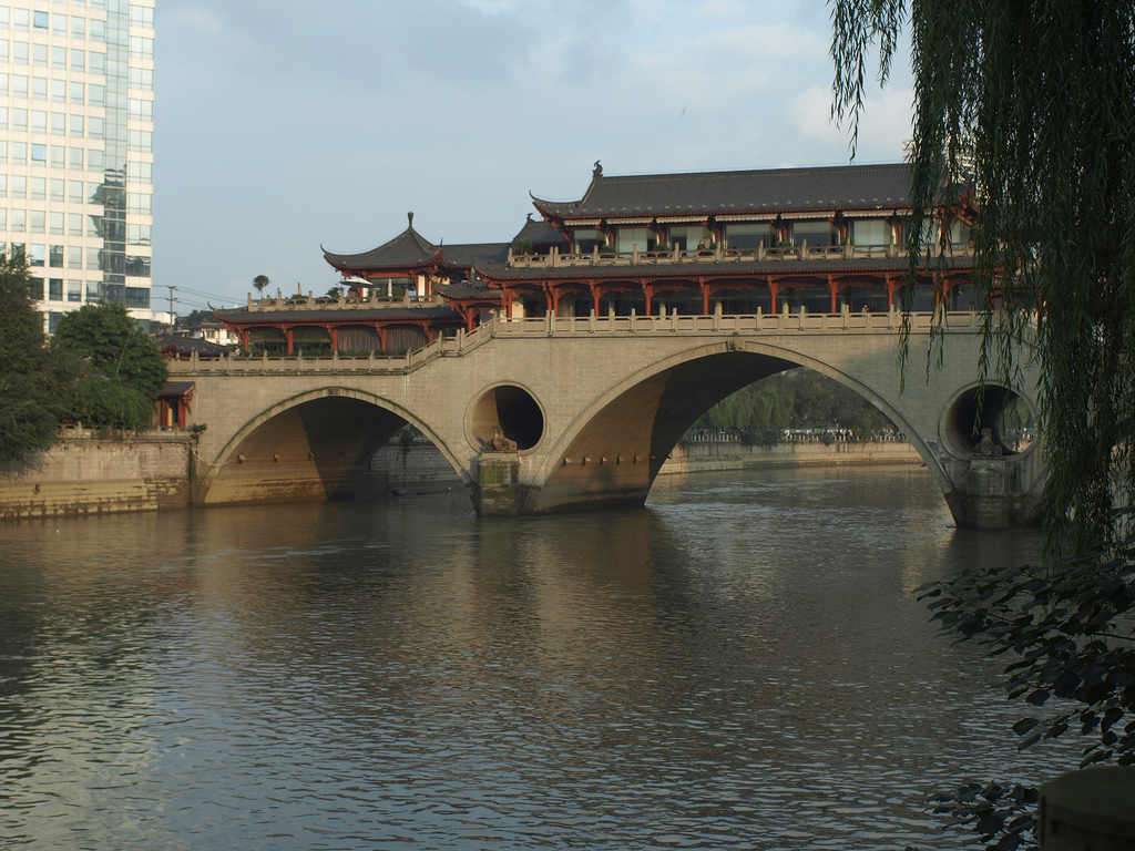 Brücke / Bridge, City of Chengdu, Sichuan province, China